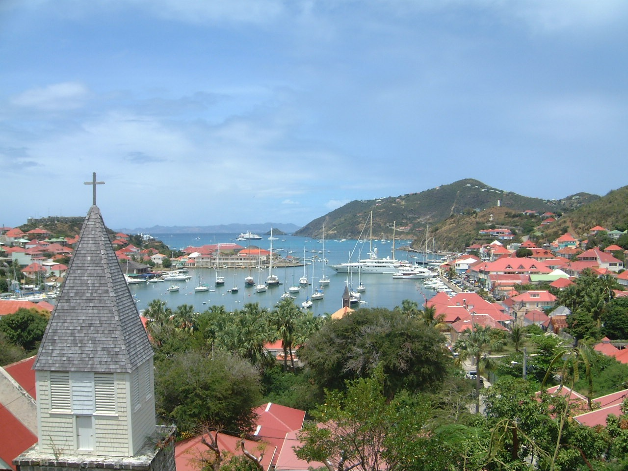 The harbour of the island, in Gustavia, Saint-Barthélemy.